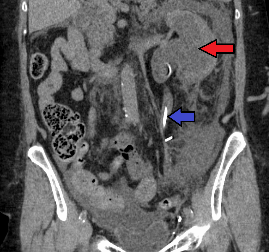 Left sided hydronephrosis in a person with a single kidney. Stent is also present.